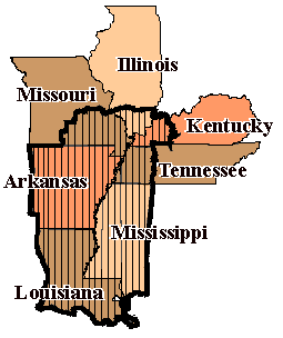 Part of the Draft Heritage Study and Environmental Assessment